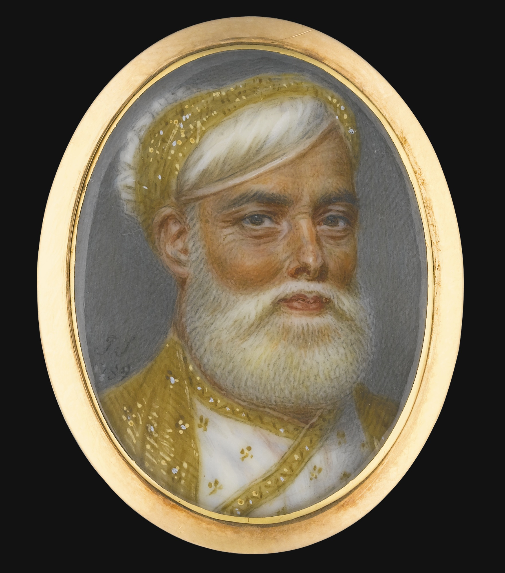 Portrait of Muhammed Ali Khan Wallajah (1717-1795) Nawab of Arcot. Painted by John Smart (1742-1811). 26 x 19 mm.